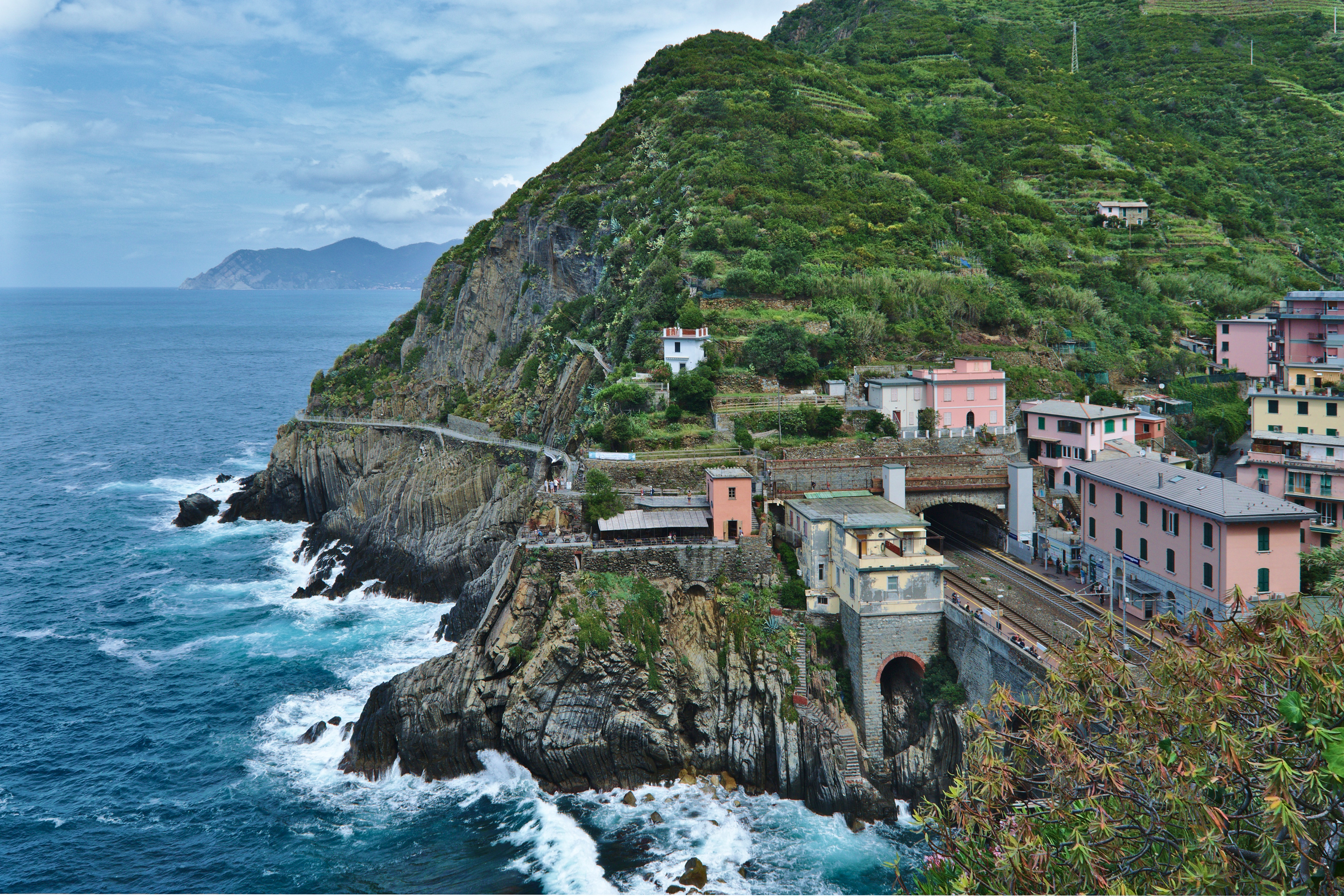 Riomaggiore railway station.